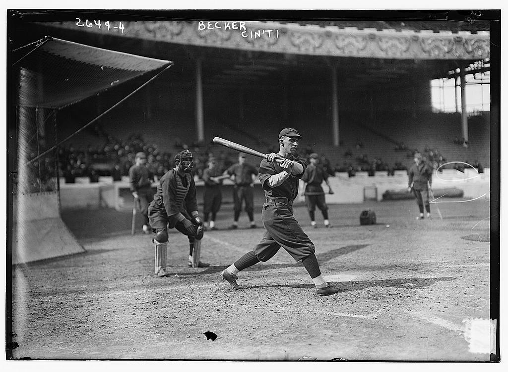 Bain News Service,, publisher. [Beals Becker, Cincinnati NL (baseball)] [1913] 1 negative : glass ; 5 x 7 in. or smaller. Notes: Original data provided by the Bain News Service on the negatives or caption cards: Becker, Cinci. Corrected title and date based on research by the Pictorial History Committee, Society for American Baseball Research, 2006. Forms part of: George Grantham Bain Collection (Library of Congress). Format: Glass negatives. Repository: Library of Congress, Prints and Photographs Division, Washington, D.C. 20540 USA, General information about the Bain Collection is available at Persistent URL: Call Number: LC-B2- 2649-4